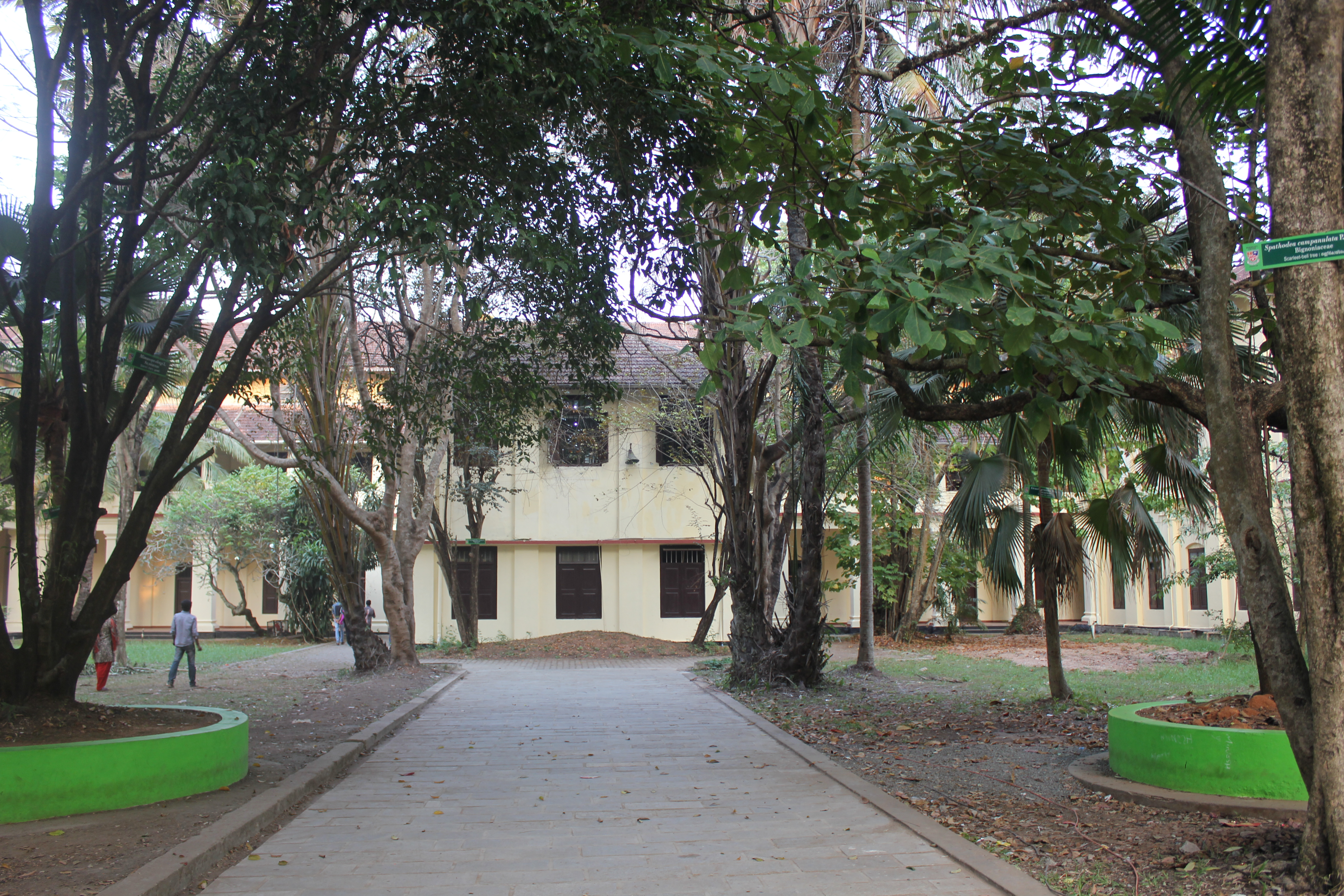 The green campus that acts as the lungs of the city.